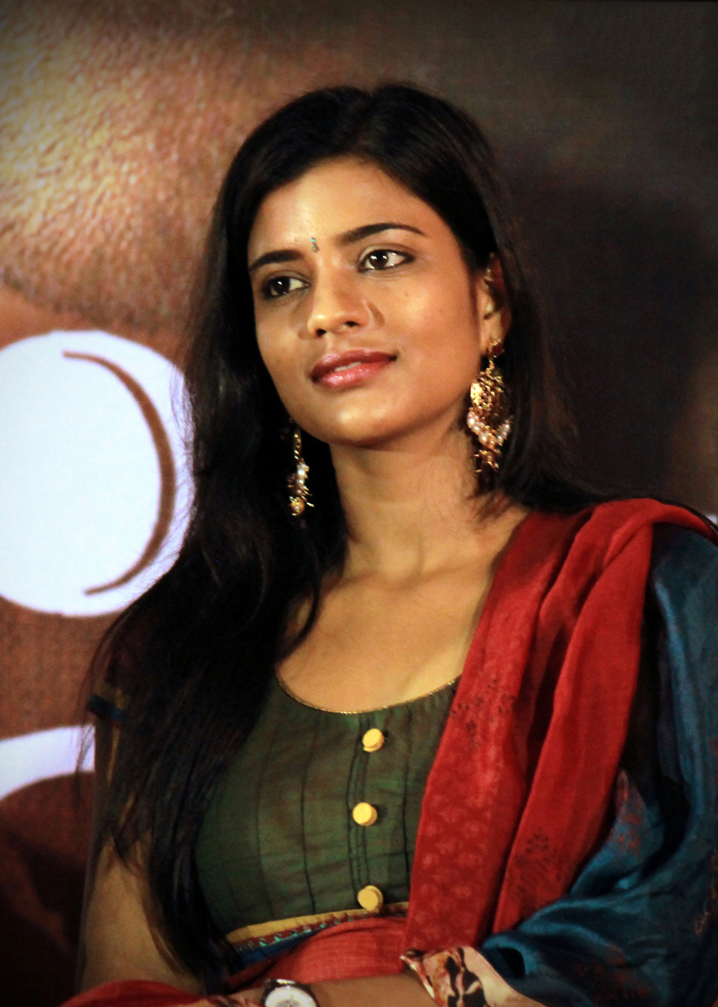 Aishwarya Rajesh at Rummy Audio Launch